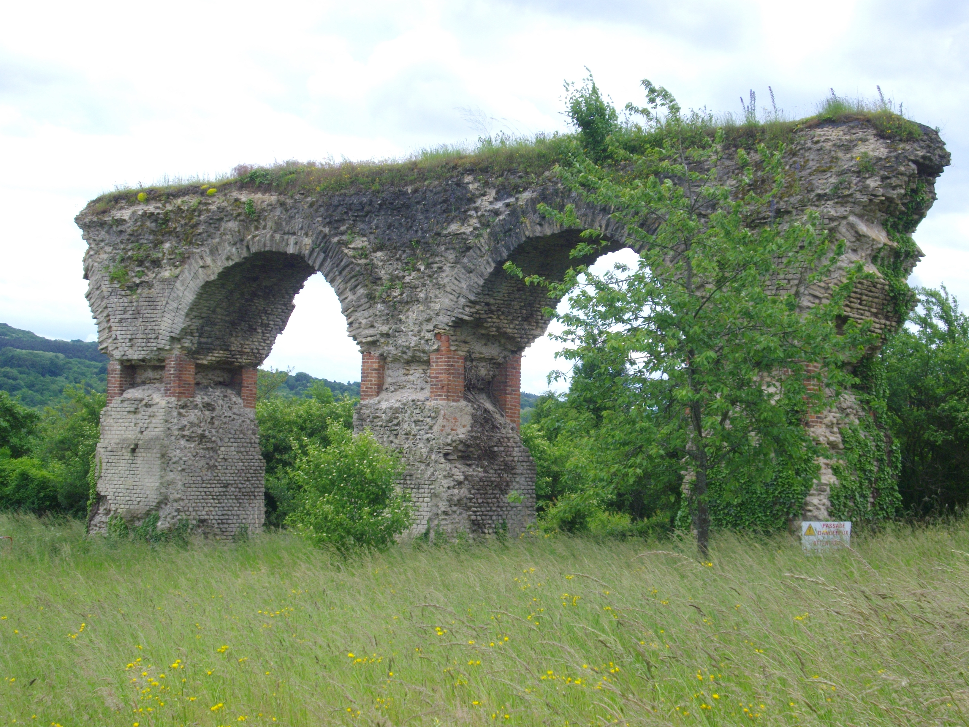 Aqueduct from Gorze to Metz in Ars-sur-Moselle (Moselle, France) .